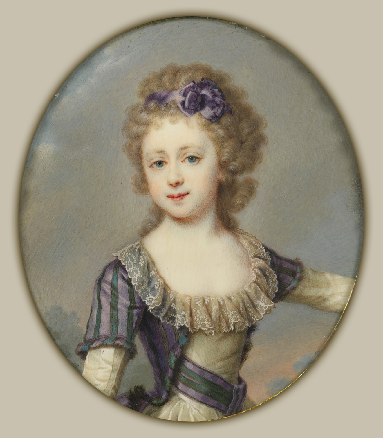 Princess Mary of Russia, Grand Duchess of Saxe-Weimar-Eisenbach (1786-1859)